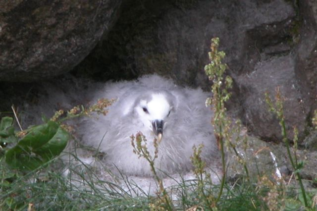 Young fulmar. Suðuroy, Faroe Islands